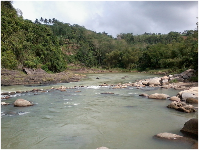 The longest river in Sagay CityTagalog: Ang pinakamahabang ilog sa Sagay City